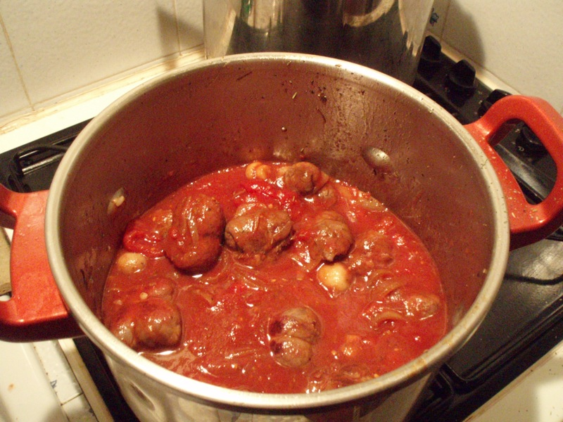 "Lark without head"